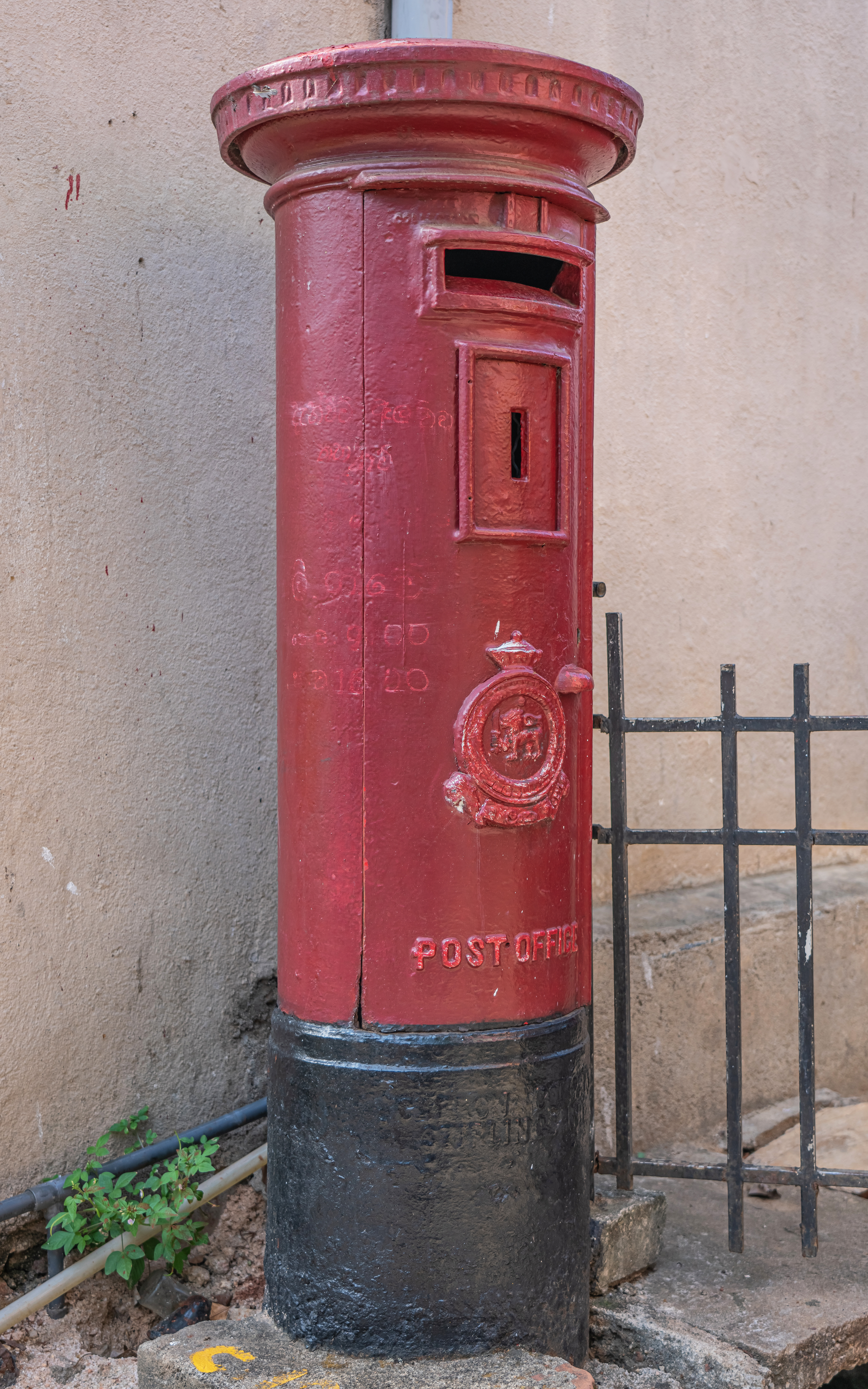 A post box at the Empire Hotel in Kandy, Sri Lanka